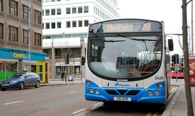 Ulsterbus bus 2420 (reg. GXI 420). Some Ulsterbus country services now serve the centre of Belfast as well as the Europa Buscentre. 2420 is awaiting departure from Wellington Place with the 12.30 (Su) stage-carriage service to Armagh (notwithstanding the destination indicator) a marathon journey of two hours - stopping (as the saying goes) "at every hole in the hedge".